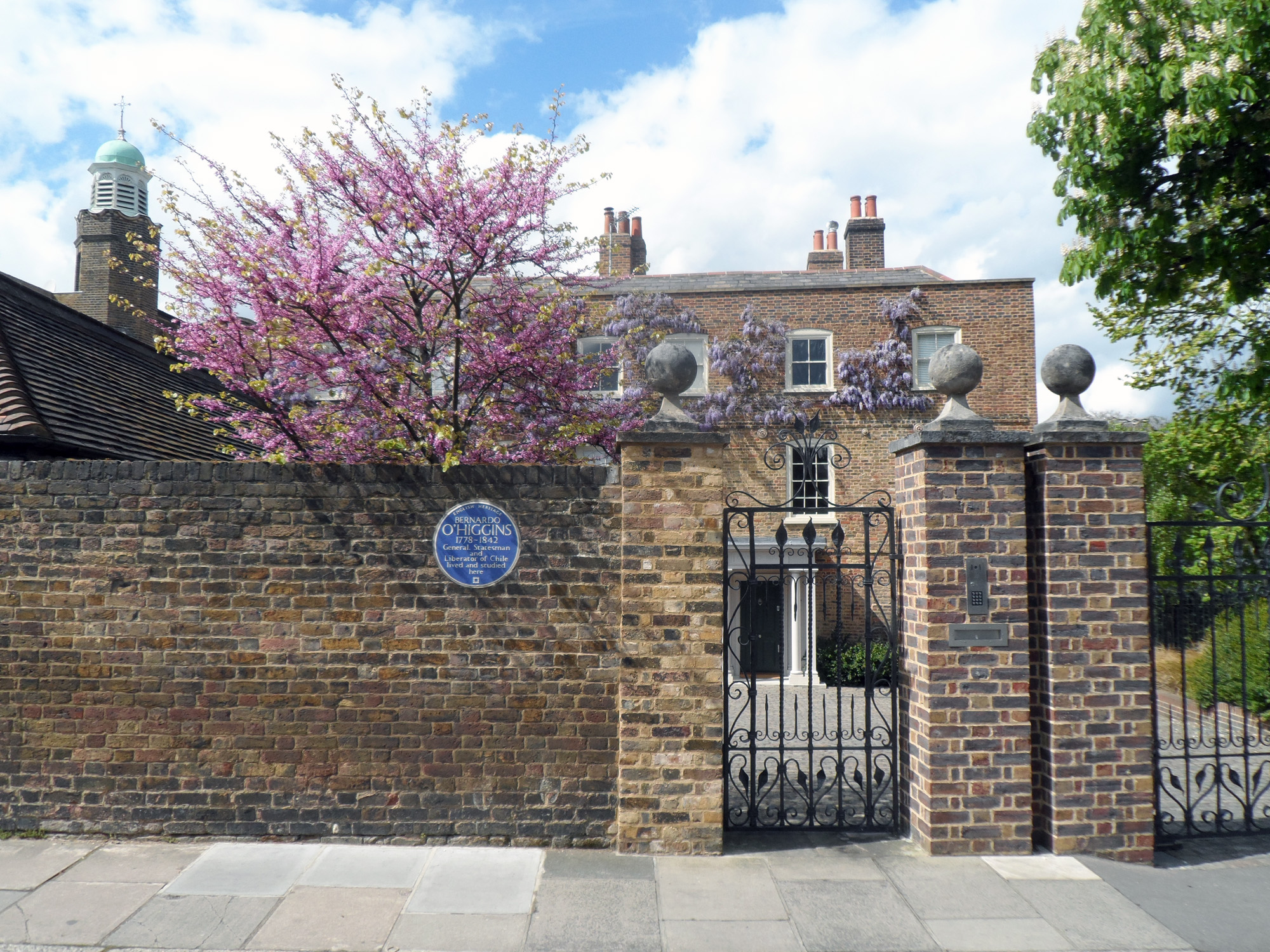 BERNARDO O'HIGGINS 1778-1842 General Statesman and Liberator of Chile lived and studied here